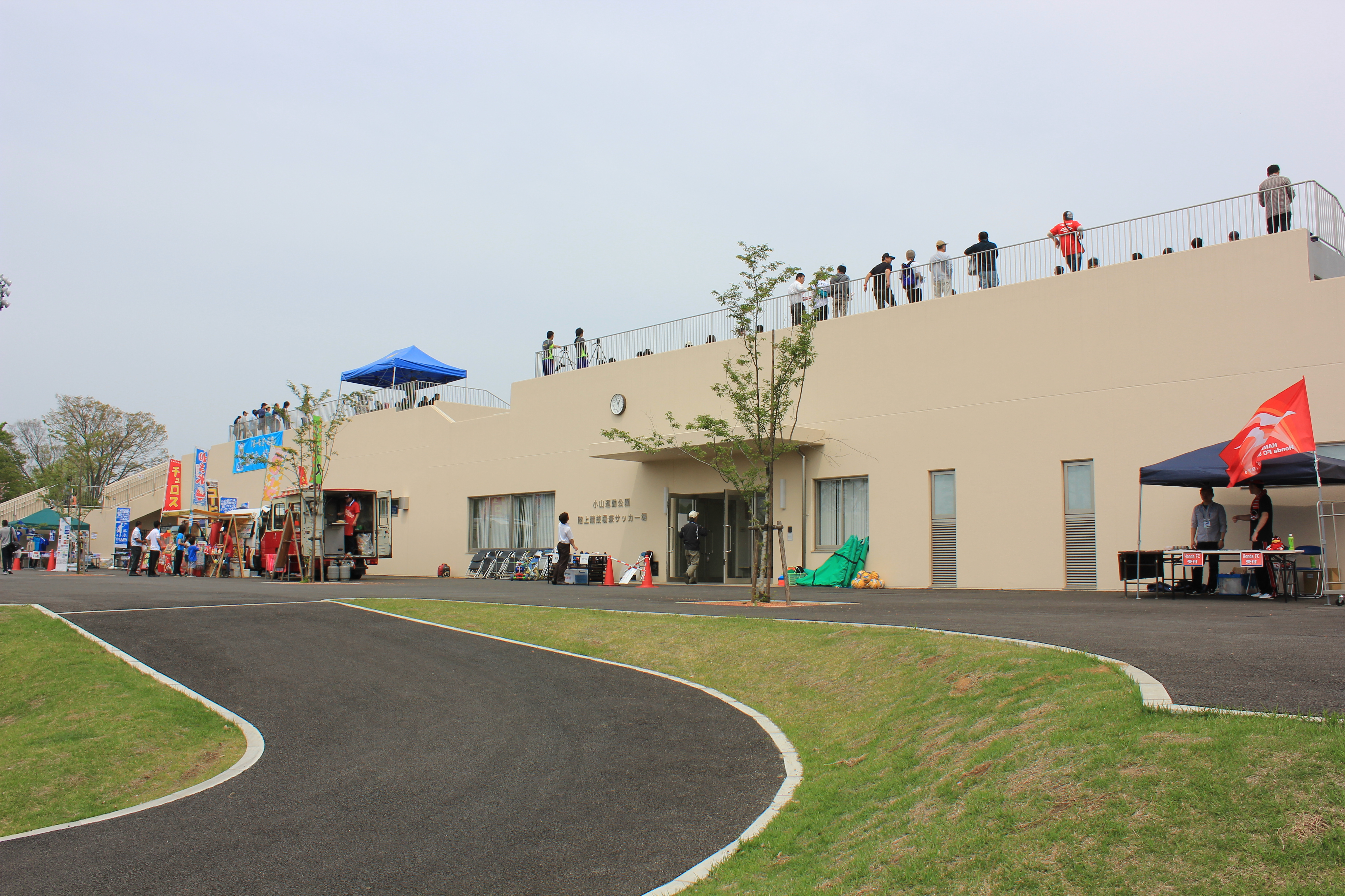 Oyama Sports Center